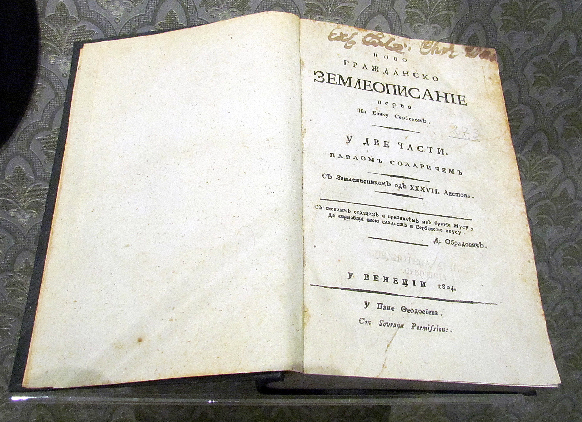 Geography (Zemleopisanie) by Pavle Solarić